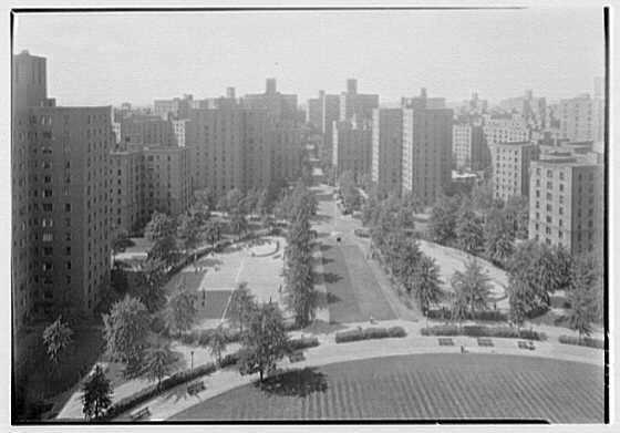 Title: Parkchester, Bronx, New York. Abstract/medium: Gottscho-Schleisner Collection (Library of Congress) Physical description: 1 negative